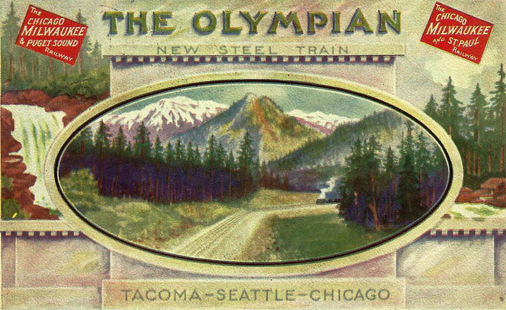 Postcard promoting the Chicago, Milwaukee and St. Paul Railway's new train, the Olympian. The service began in May 1911. Note that it had all steel passenger cars from the start, despite the fact that wooden cars would still be allowe in service for a few years thereafter.